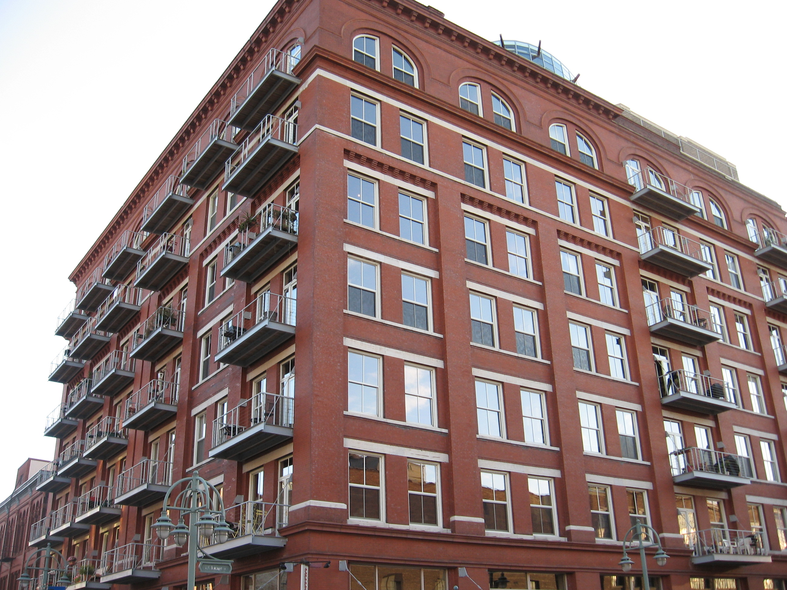 New lofts